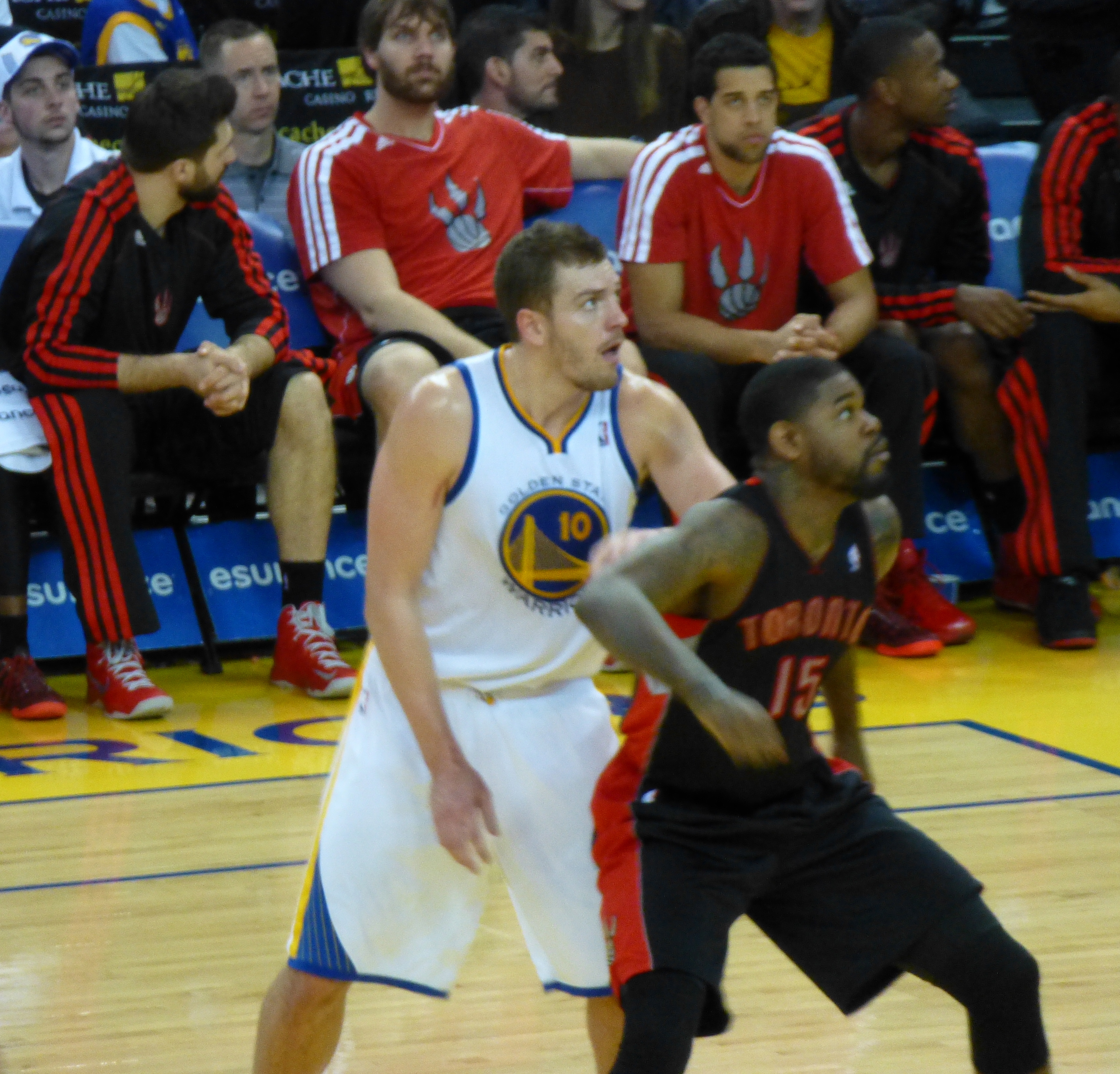 David Lee and Amir Johnson, Toronto Raptors at Golden State Warriors March 4, 2013